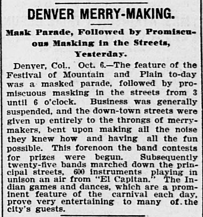 Clipping from the Kansas City Jounal, Kansas City, Missouri, edition of October 7, 1897, image of the newspaper page is on the website Chronicling America: Historic American Newspapers It contains coverage of the Festival of Mountain and Plain held in Denver from 1895 to 1902.